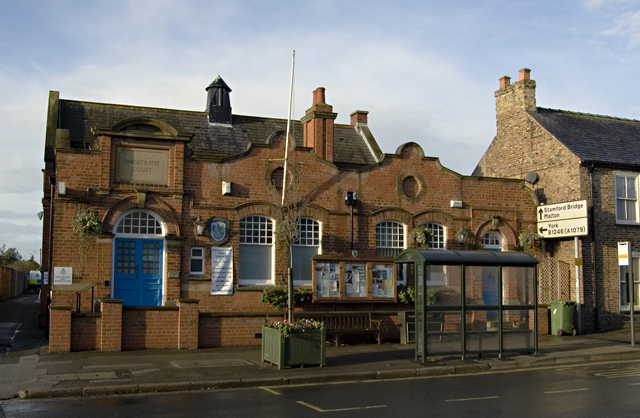 Old Courthouse, Pocklington, East Riding of Yorkshire, England.Converted courthouse at 37 George Street, it still houses the police station but heard its last court session in 2001. It was converted in 2006 to accommodate the town council and East Riding of Yorkshire Council.